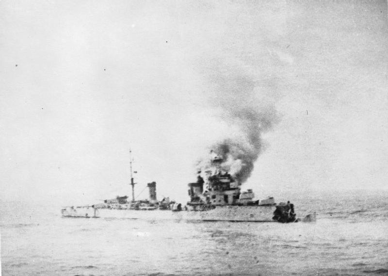 The Sinking of Italian Cruiser Bartolomeo Colleoni by Hmas Sydney, July 1940 The Italian light-cruiser BARTOLOMEO COLLEONI with smoke pouring from her superstructure. She is on fire and her bow has been destroyed after receiving several hits during an encounter with HMAS SYDNEY on 19 July 1940